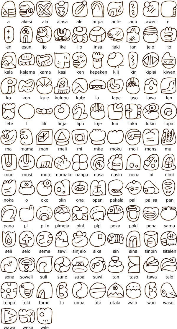 sitelen sitelen is a logographic orthography made by Jonathan Gabel for the conlang Toki Pona